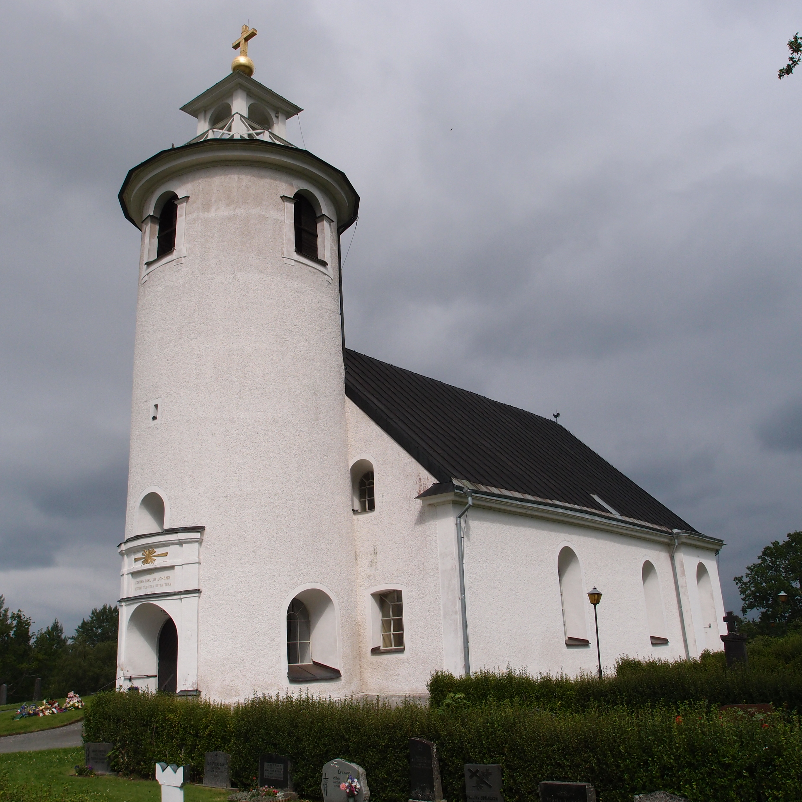 Ökna Church